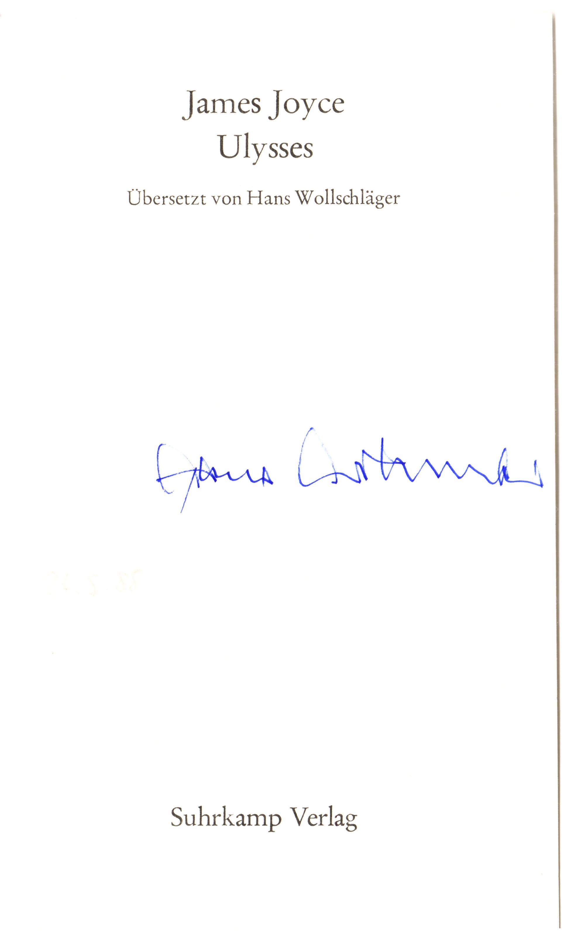 translator's signature in my copy of Hans Wollschläger's German translation of James Joyce's Ulysses